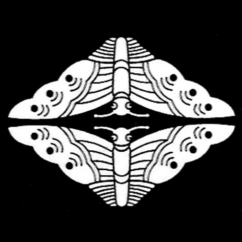 crest of Tatebe daimyo